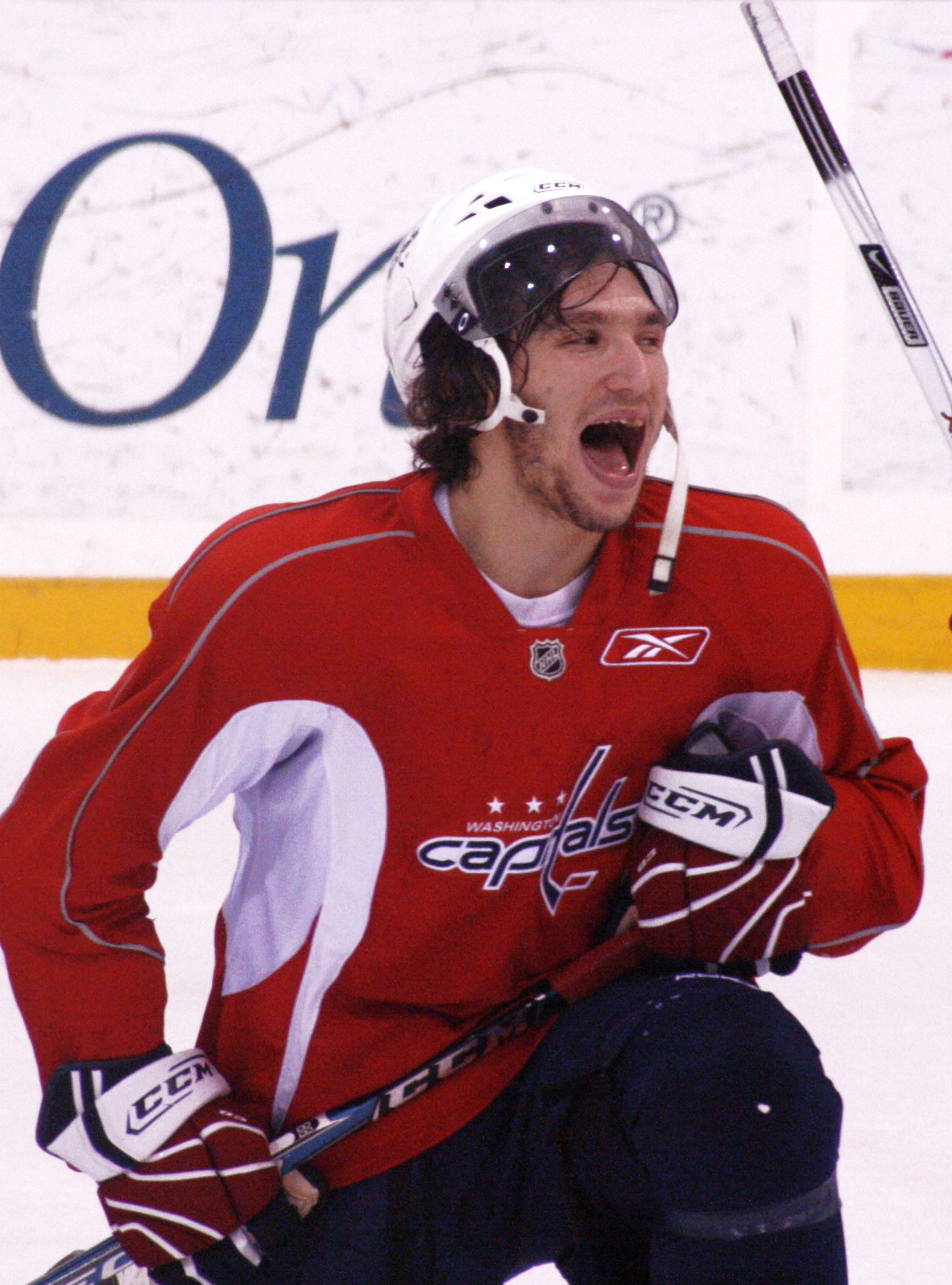 2007-08 Washington Capitals practice sesison at the Kettler Ice Center in Arlington, Virginia